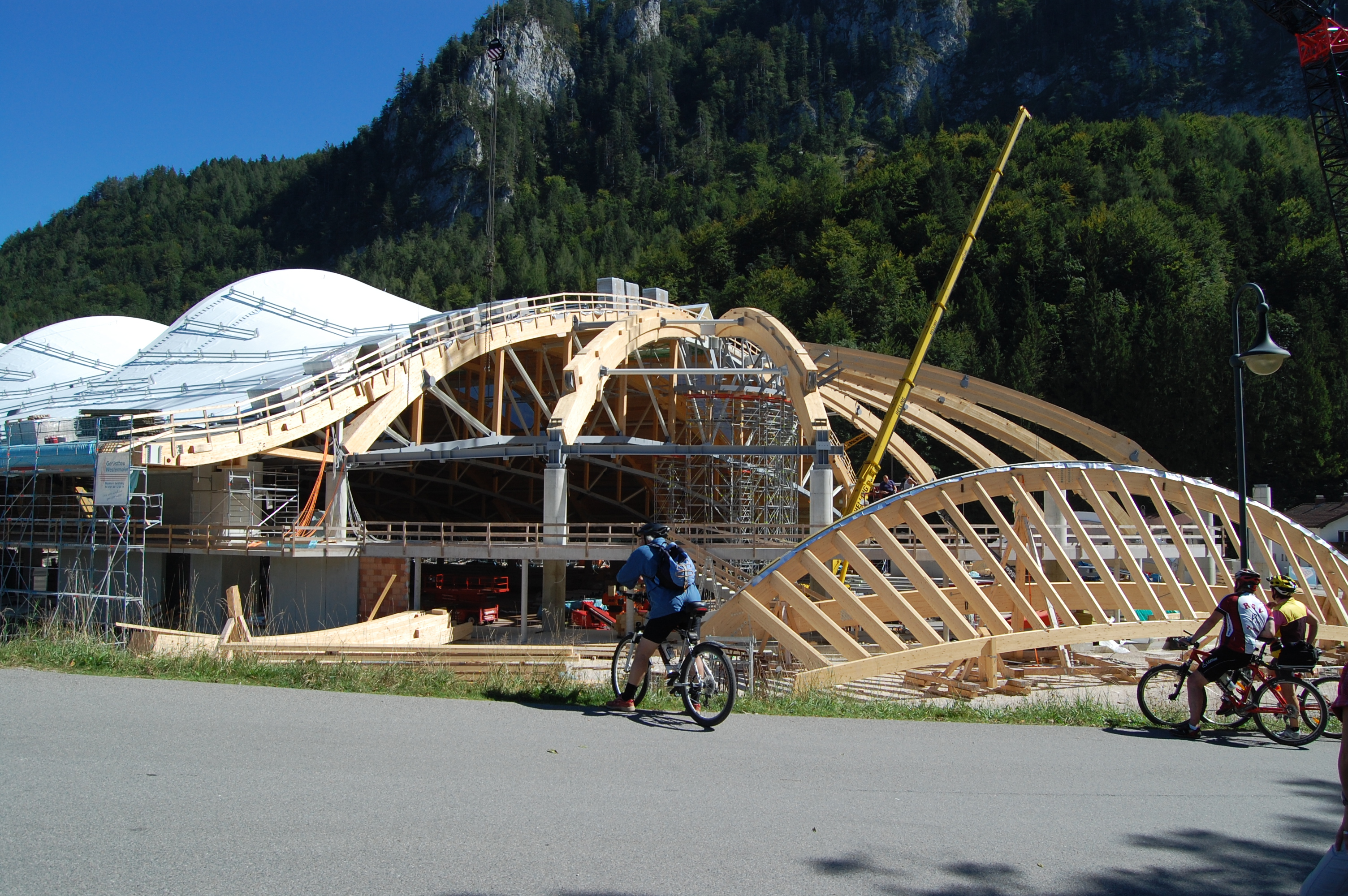 Icetrack Inzell